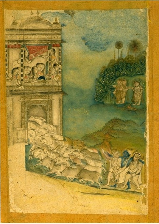 Godhuli, Krishna and his fellow cowherds, bring home the cows in the evening, Godhuli, 'the Hour of Cowdust'. Watercolour on paper, Mewar, India. The artist, Chokha, worked for Maharana Bhim Singh of Mewar in Rajasthan, and also for the ruler of the nearby state of Deogarh.